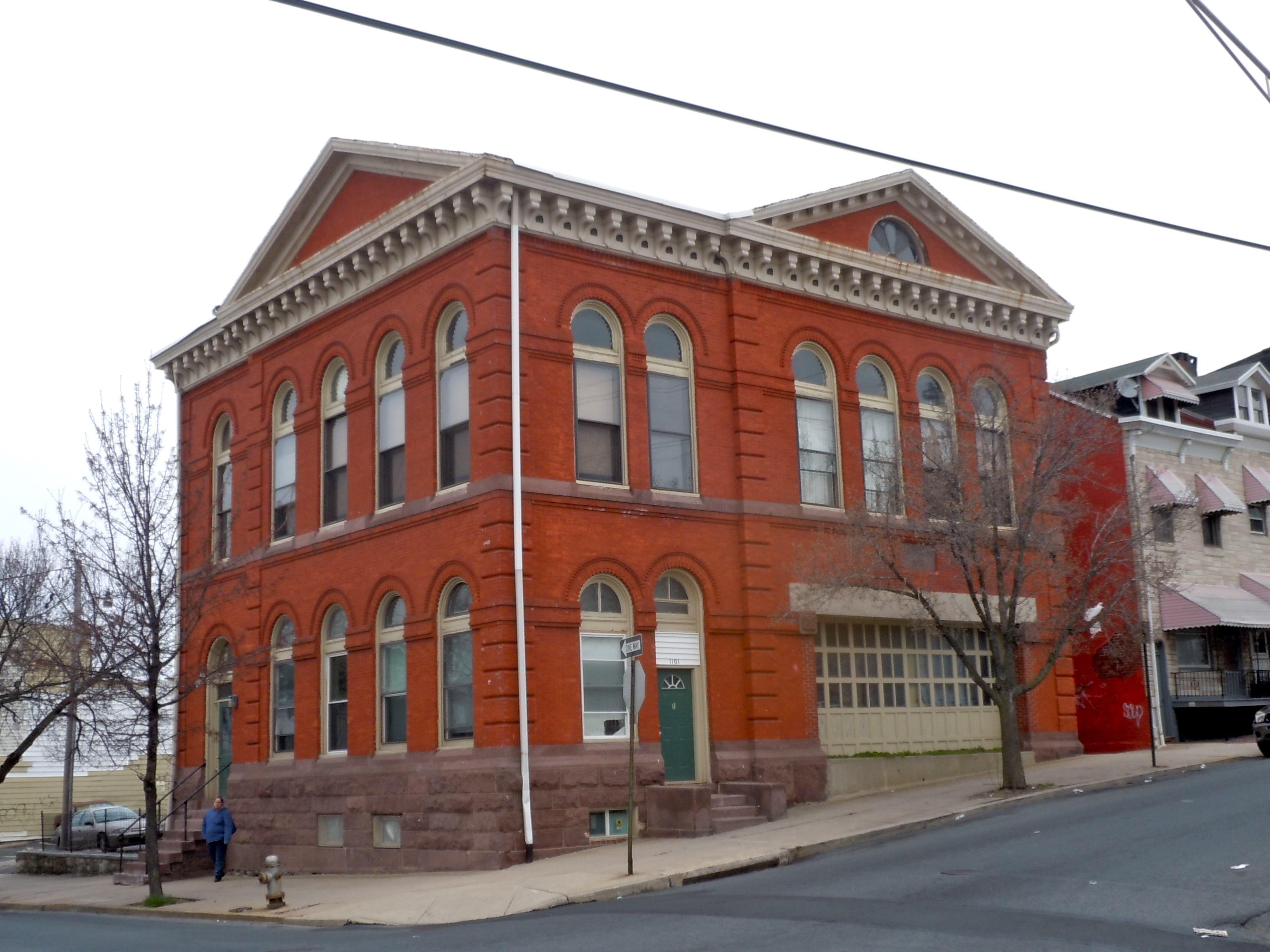 Hampden Firehouse on the NRHP since April 13, 1982. At 1101 Greenwich Street, Reading, Berks County, Pennsylvania